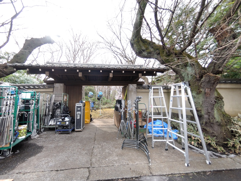 Koganei city photography rental studio